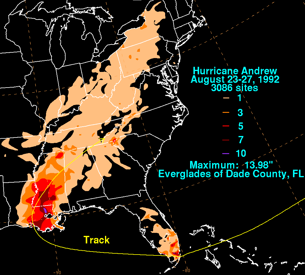 Storm total rainfall map of Hurricane Andrew during August 1992.